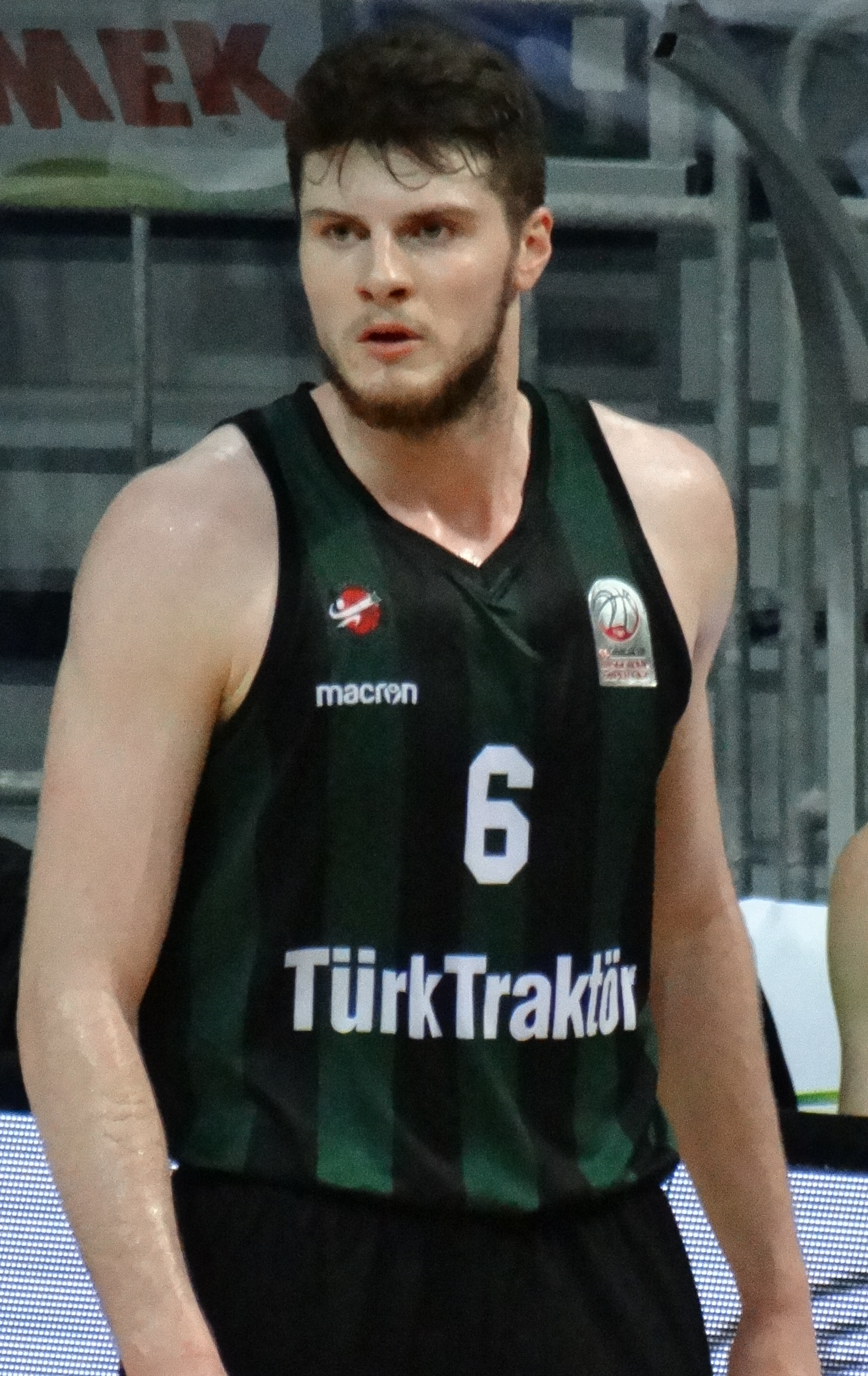 Metecan Birsen 6 Sakarya Büyükşehir Belediyespor 20180107